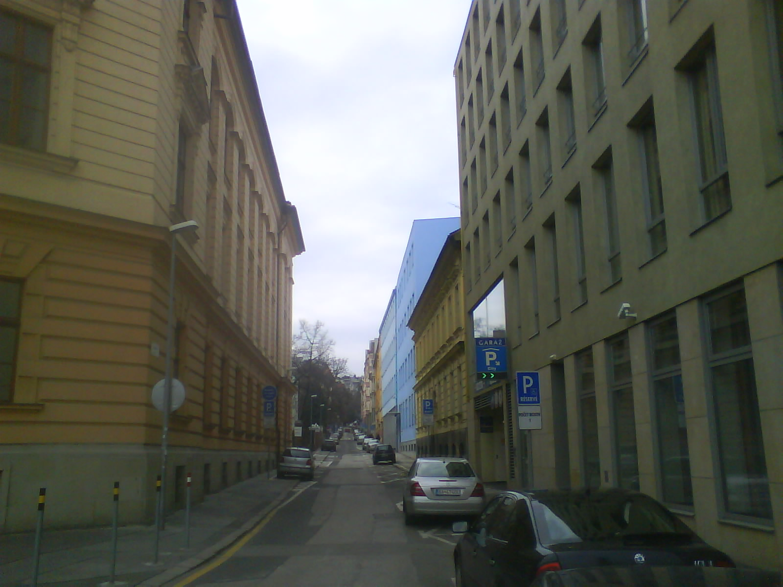 Zochova Street in Bratislava, Slovakia. Looking up towards Palisady Street.